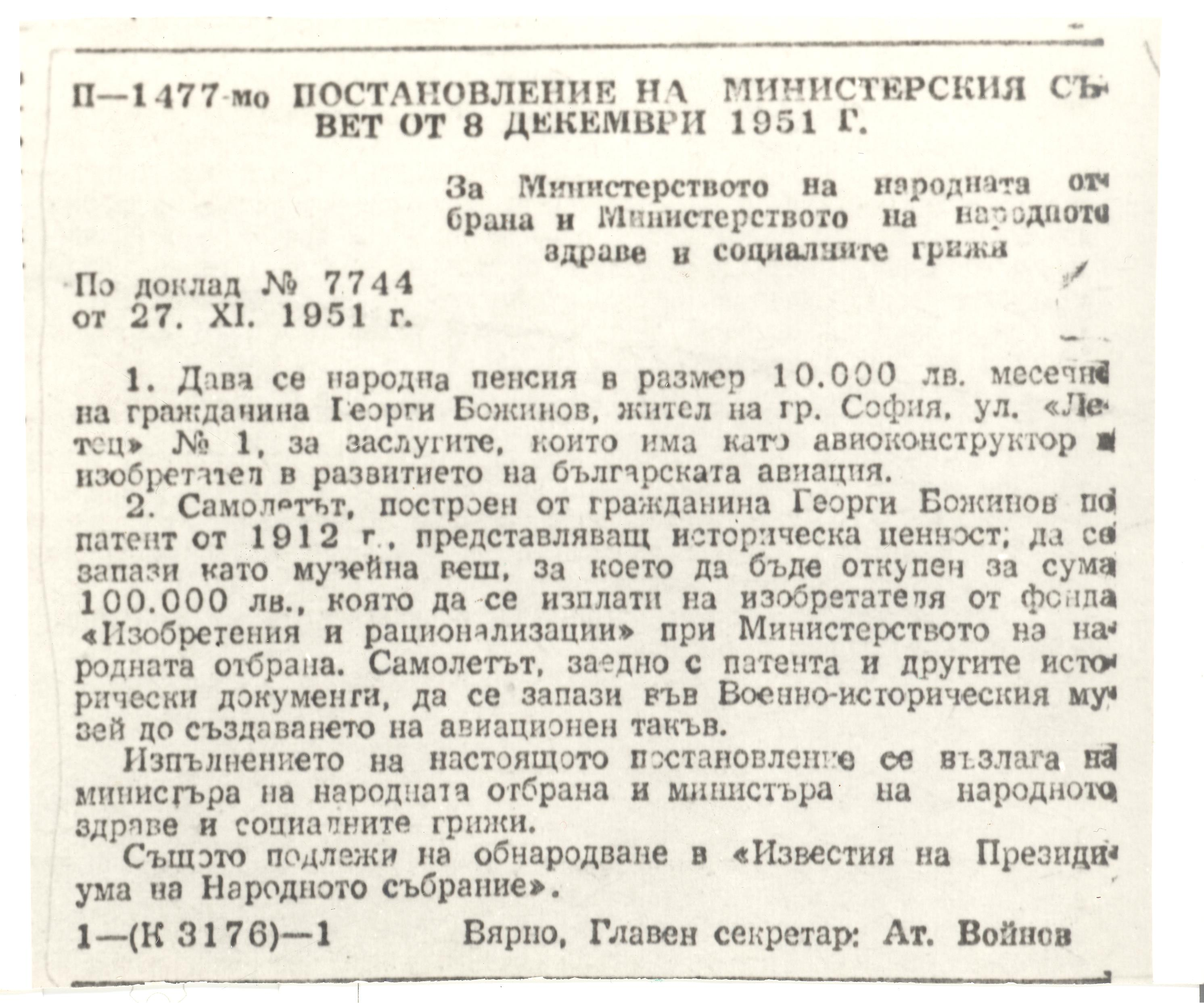 Georgy Bozhinov